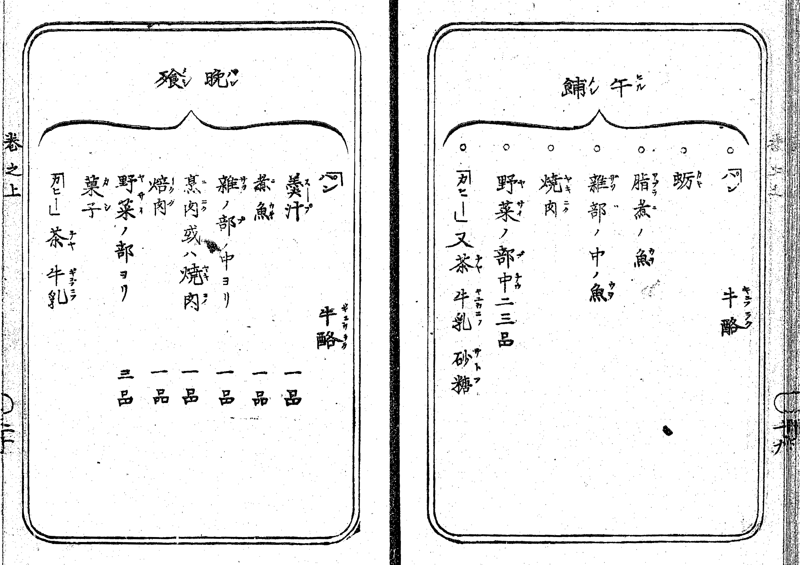 proposed western-style lunch and dinner menus in 西洋料理指南 (Seiyō Ryōri Shinan), 1872, P28.